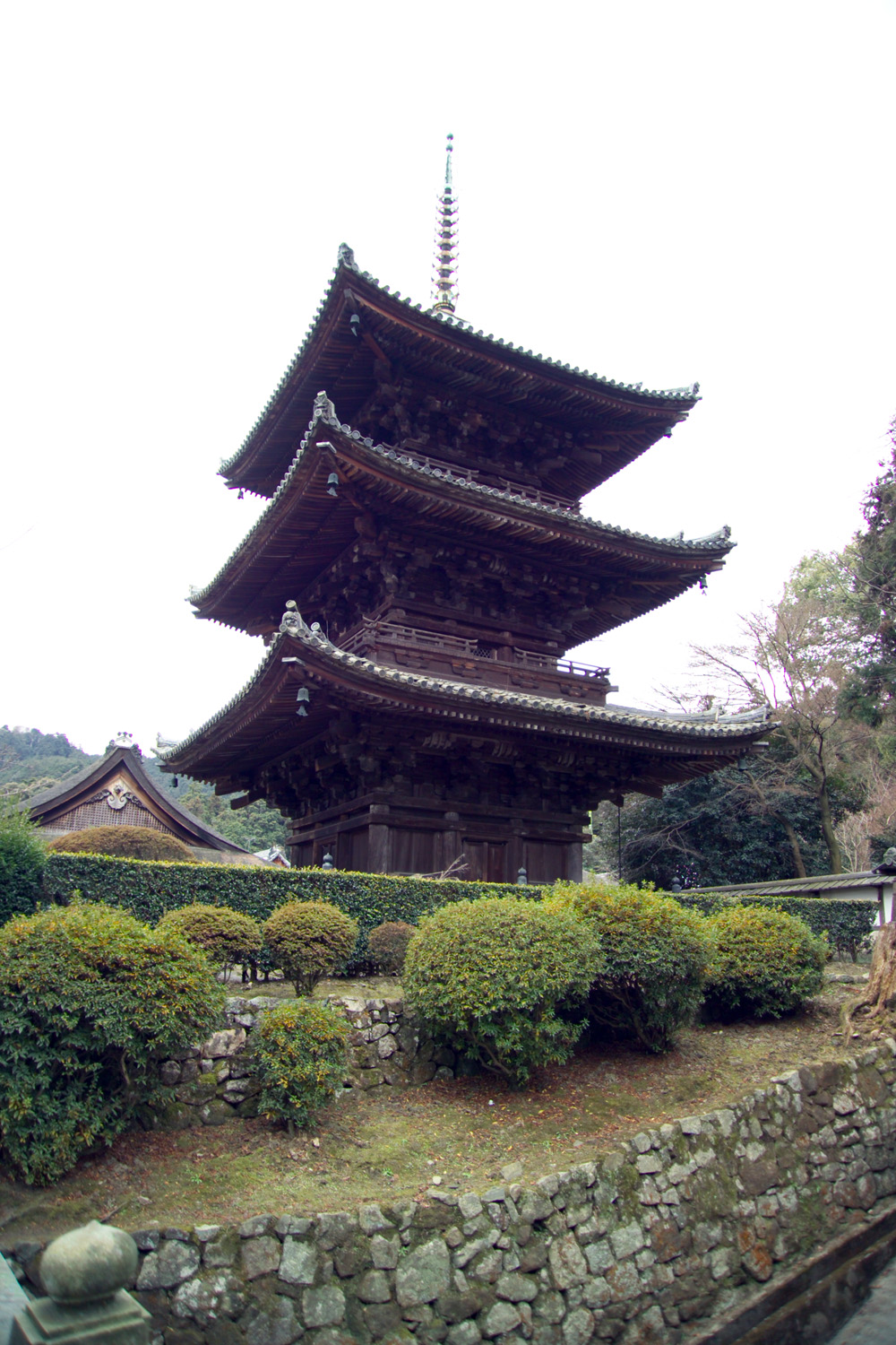 This building is the three-story pagoda 三重塔 in the Tō-in 唐院 at Mii-dera, a Buddhist temple in Otsu, Shiga Prefecture, Japan. I took the photo and contribute my rights in it to the public domain; individuals and organizations retain rights to images in it.